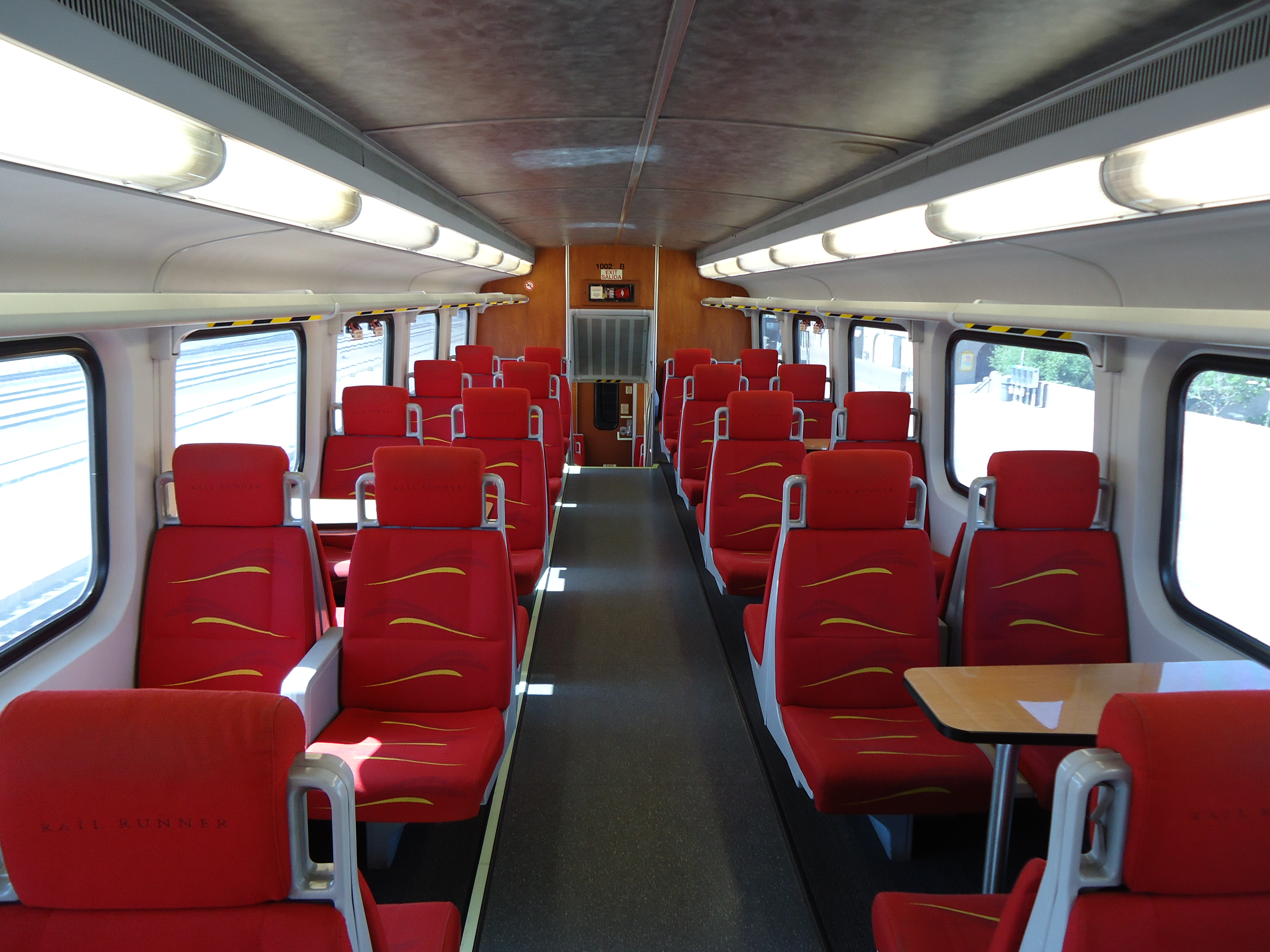 The Interior of the New Mexico Rail Runner Express